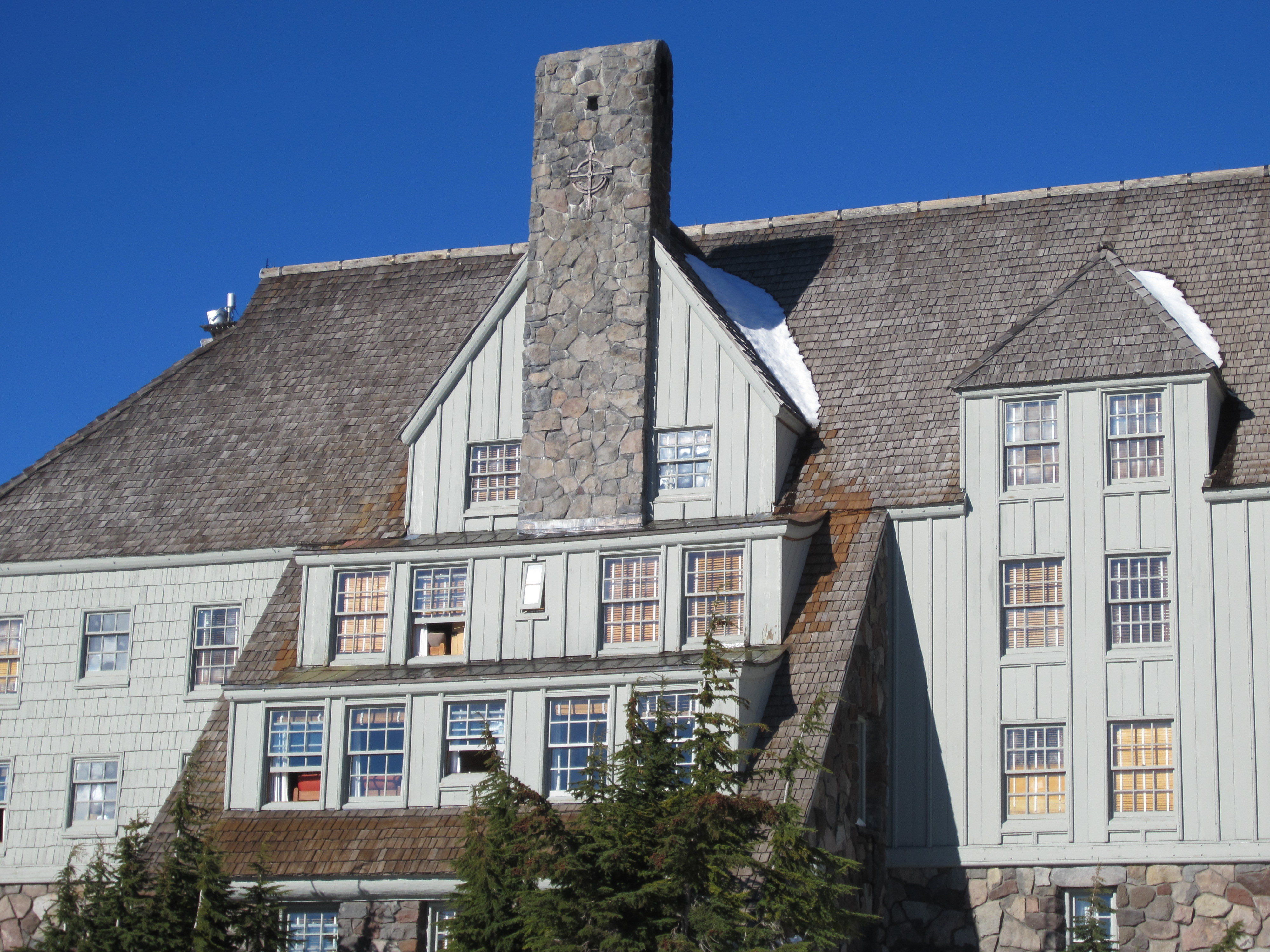 Timberline Lodge, Oregon (2013)